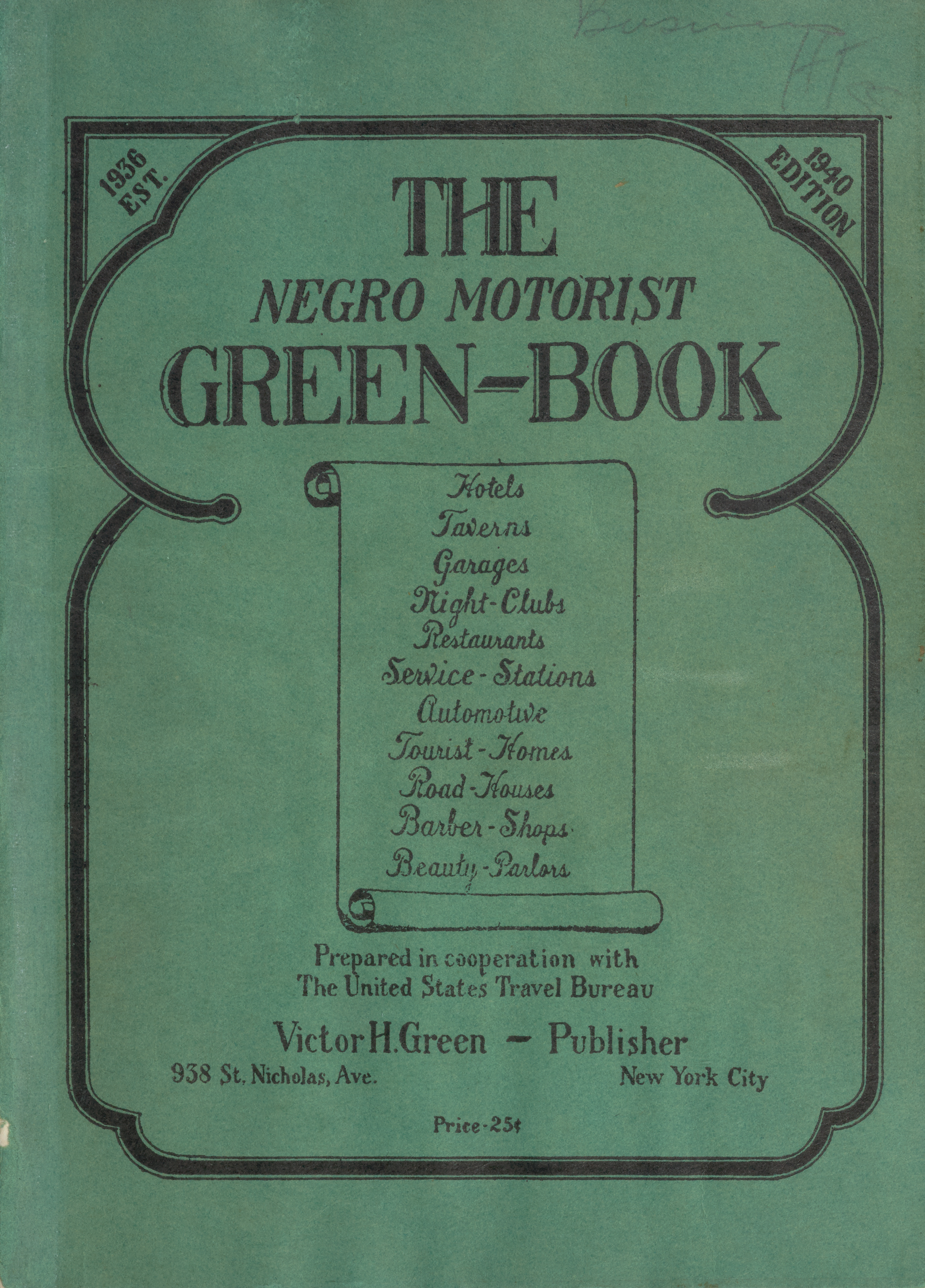 Cover of the book The Negro Motorist Green-Book (1940 edition). This guide book appeared yearly between 1936 and 1966. It helped black travelers navigate "sundown towns" which black people had to leave by sunset. Sometimes it was called "Negro traveller's Green-Book. The guide for travel and vacations" as shown in the Hollywood movie Green Book (2018)